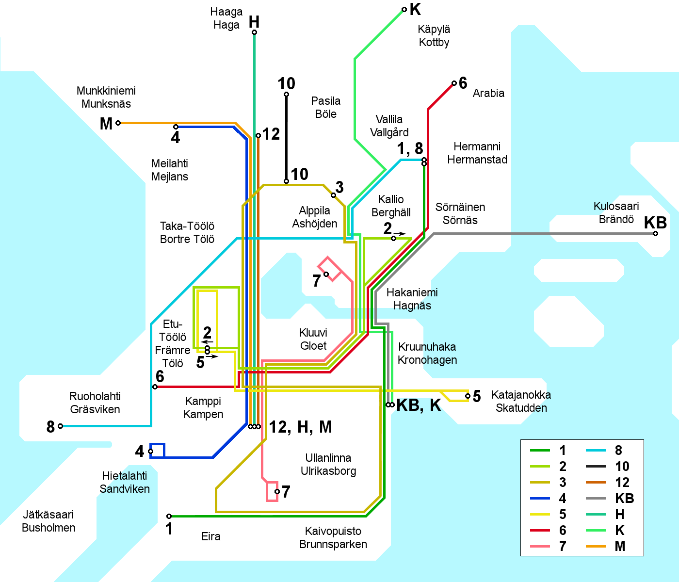 Map of the Helsinki tram network as it was in 1946-1949. At the time colours were used as line identifiers alongside numbers. The colours in this map do not wholly match the original colours due to several lines having an identifier with two different colours.